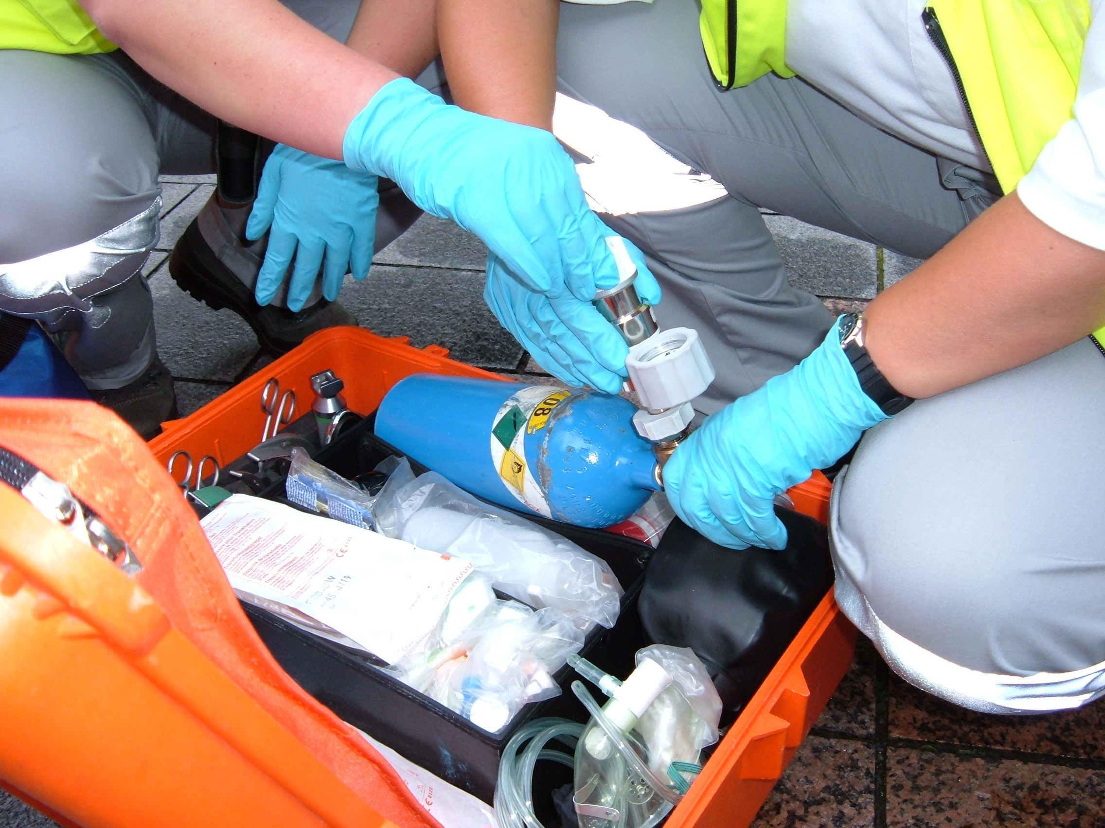 Advanced Life Support-koffer Geneeskundige Combinatie